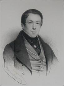 Adolphe van den Wiele (1803-1843), member of the House of Representatives (1834-1837)